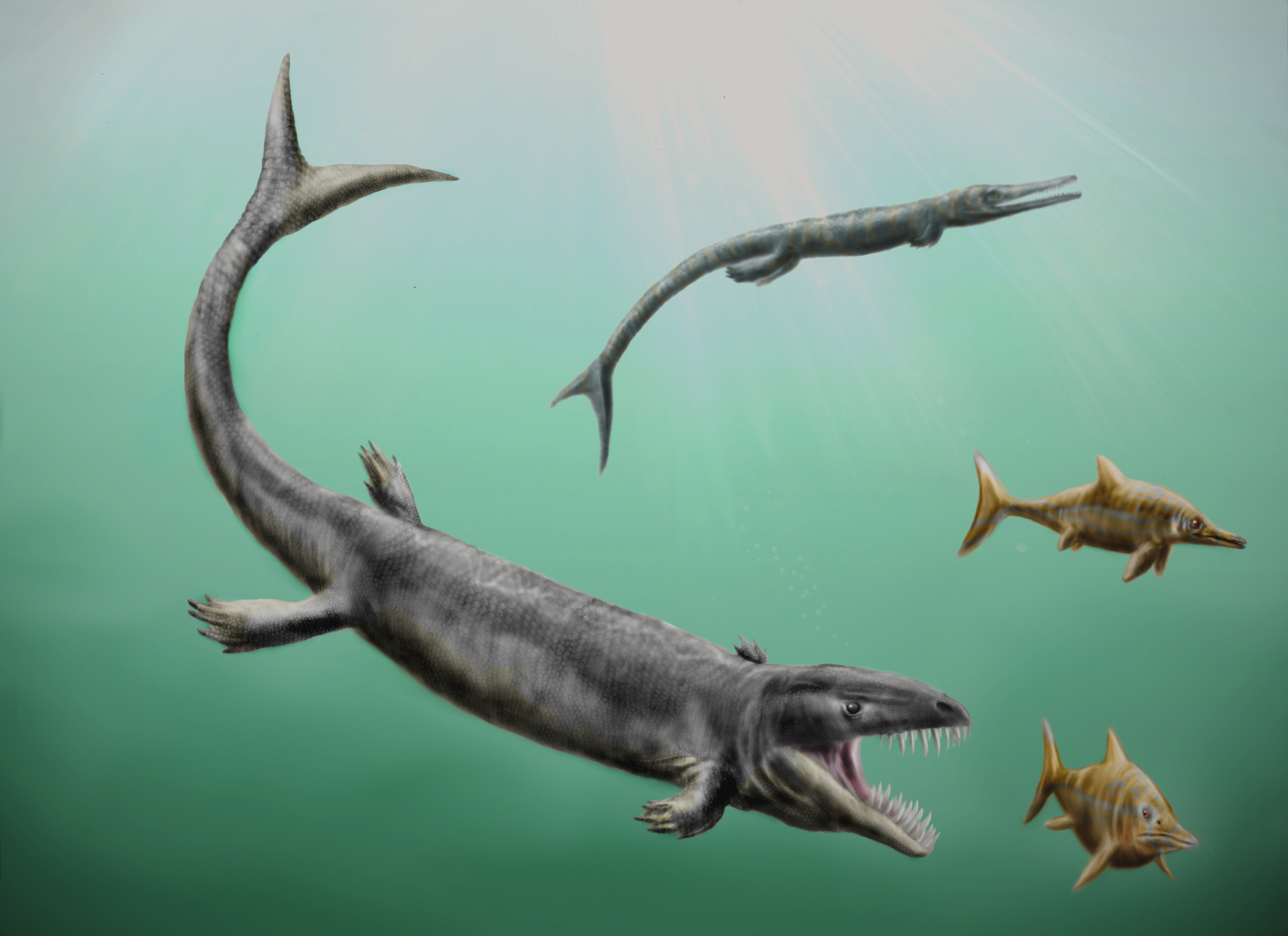 Reconstruction of the Late Jurassic seas, with Dakosaurus andiniensis in the foreground pursuing ichthyosaurs, and Cricosaurus swims in the background.